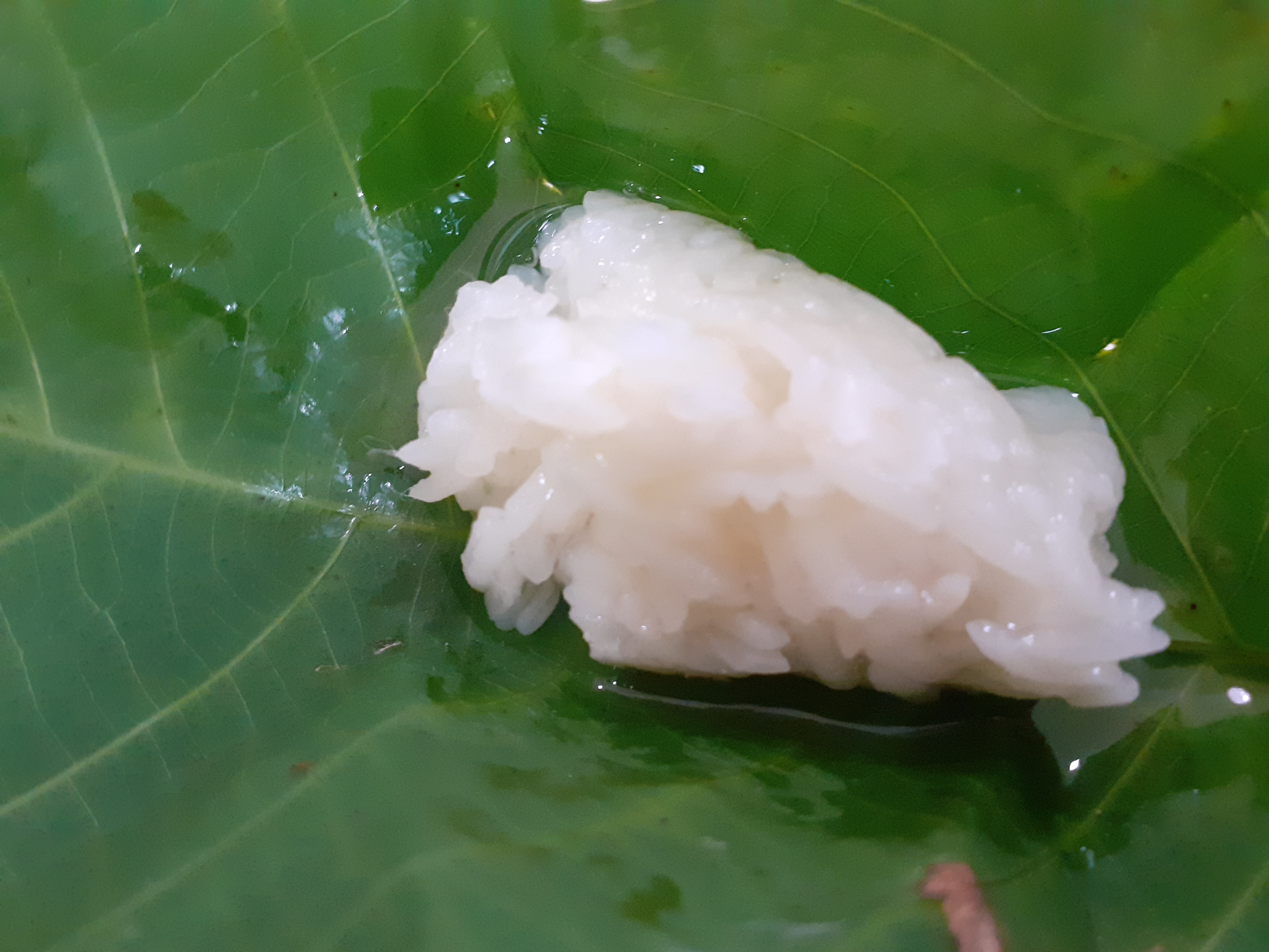 Tapai Pulut is a common food that are eaten by majority of Malays in Malaysia during Hari Raya festival. It is wrapped in the leaf of rubber tree.